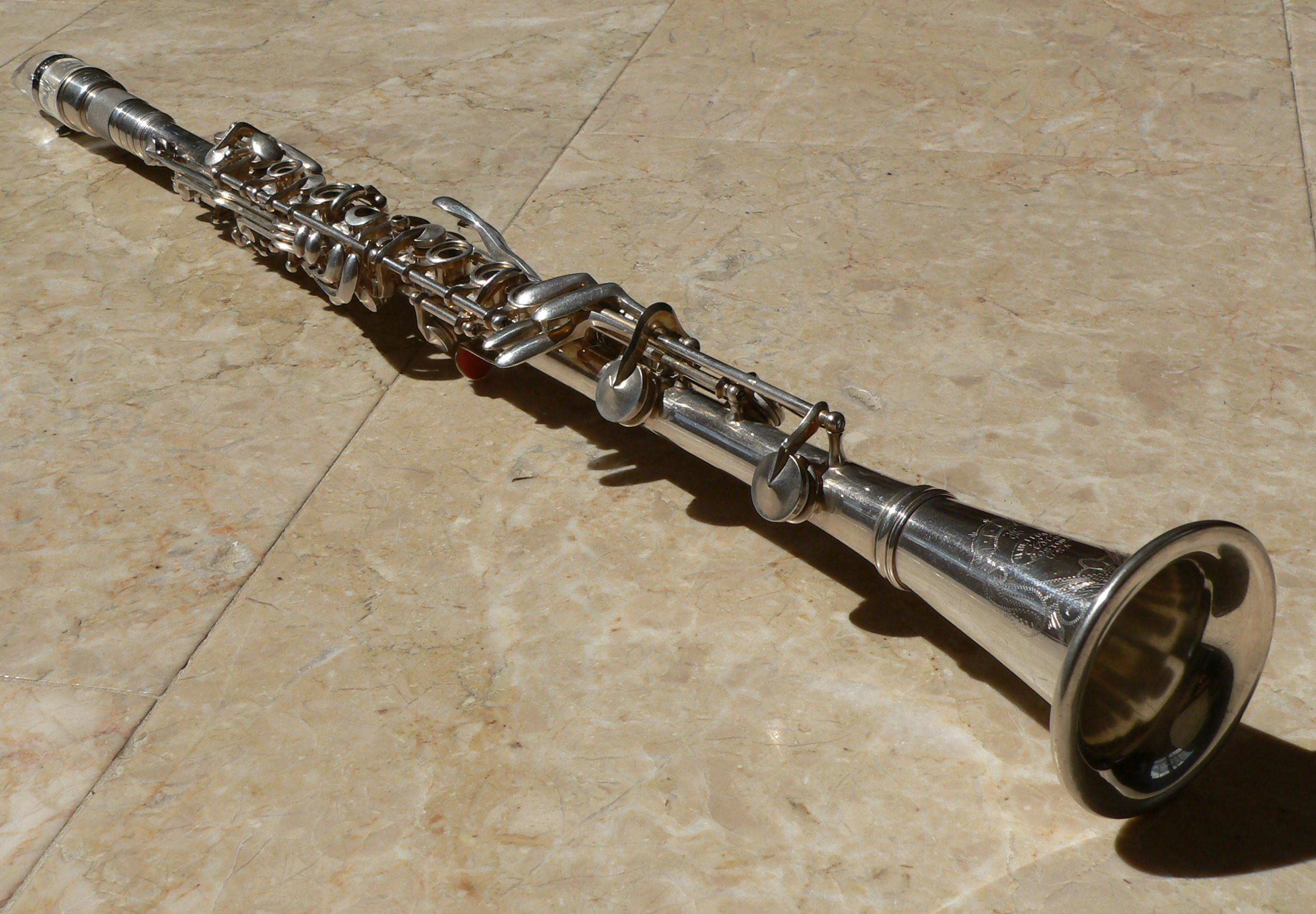 Silva Bet silver clarinet S5047, overview